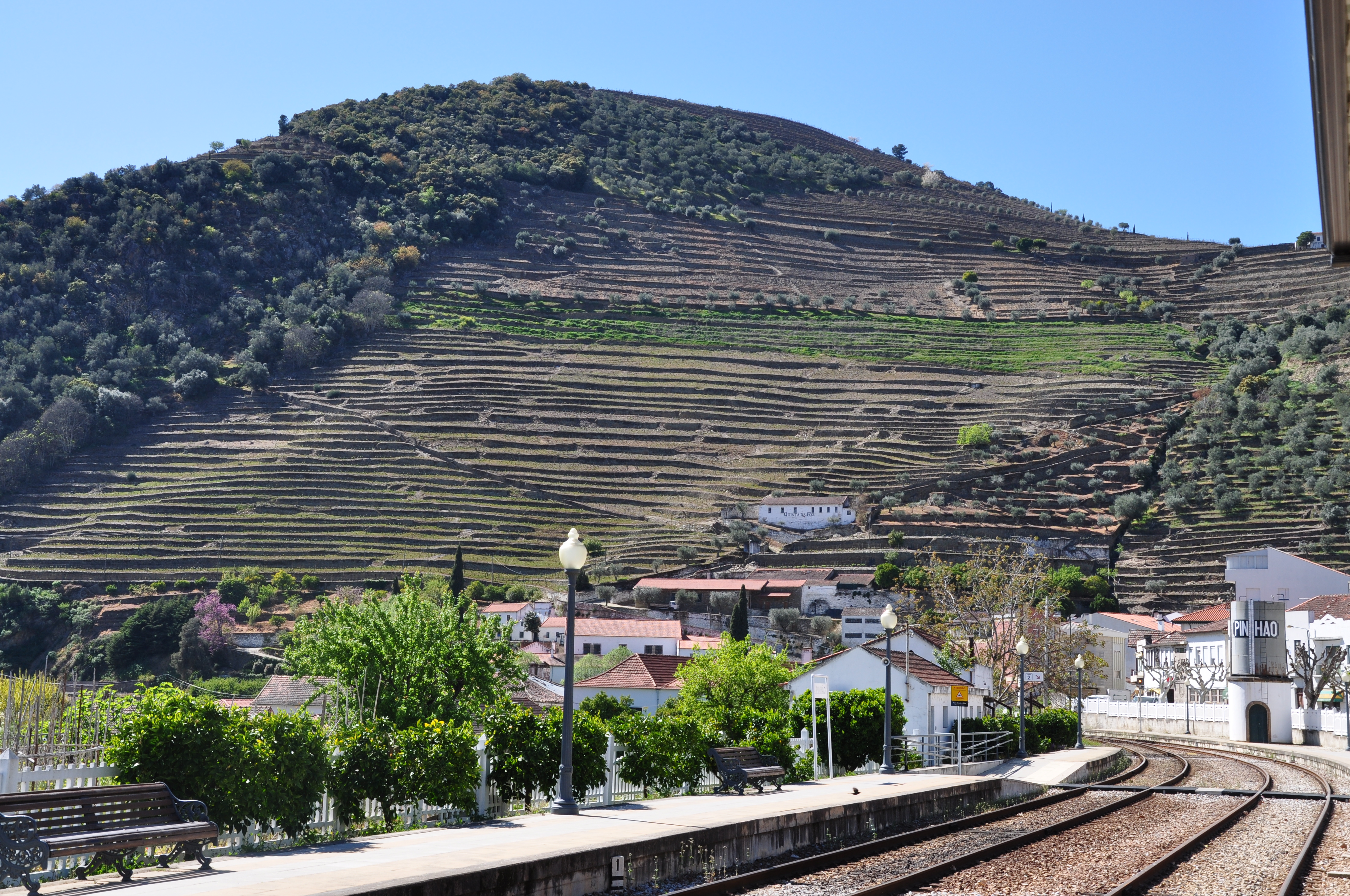 Pinhão train station with vineyards in the background, Portugal